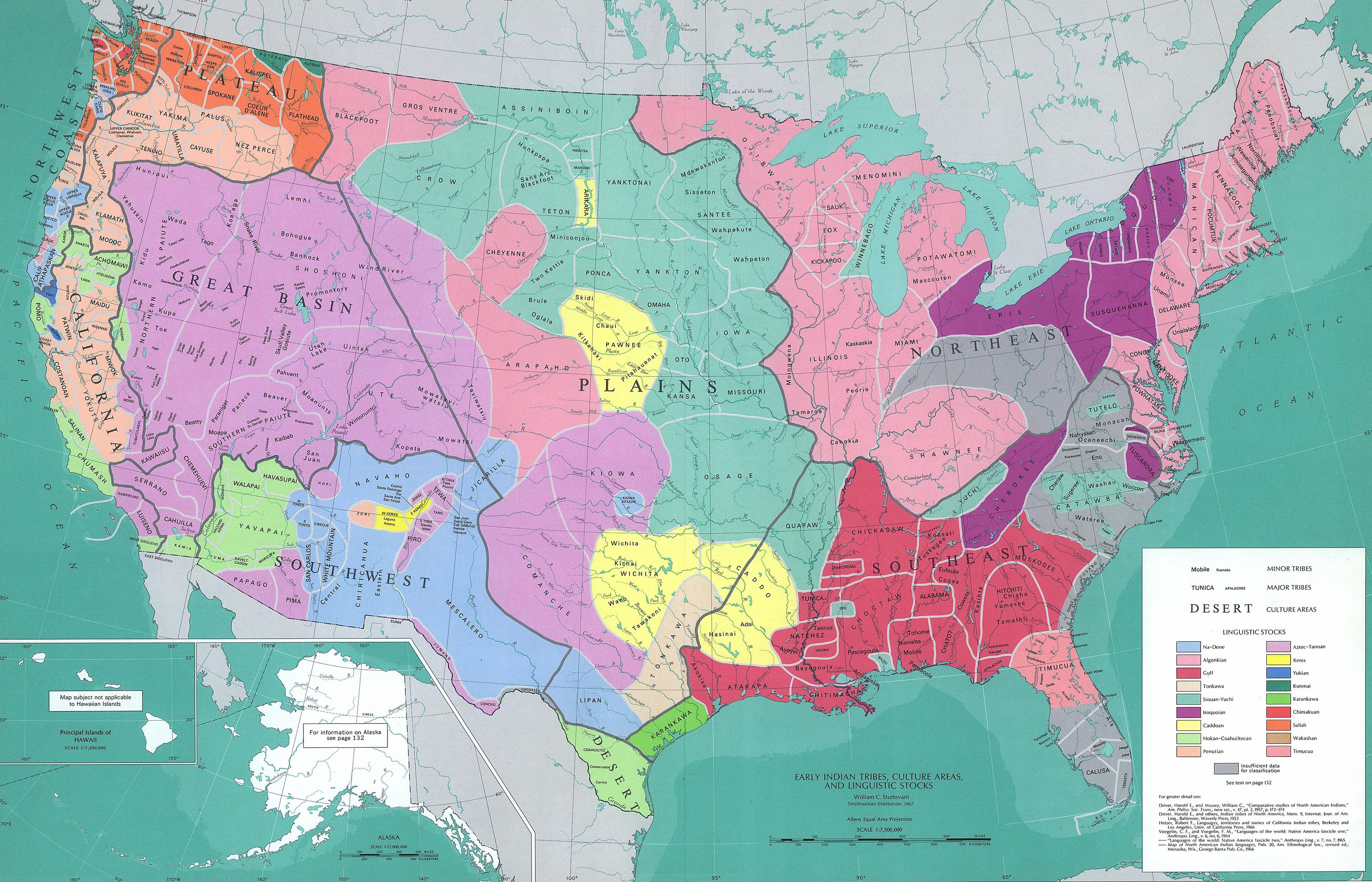 Early Indian Languages of the USA